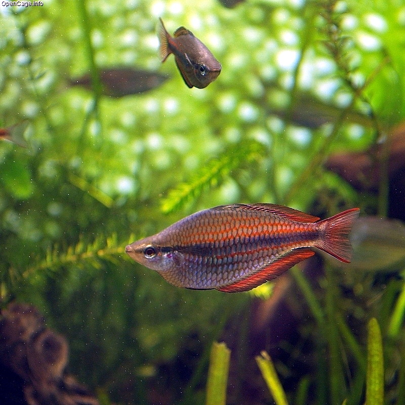 Banded rainbowfish Melanotaenia trifasciata